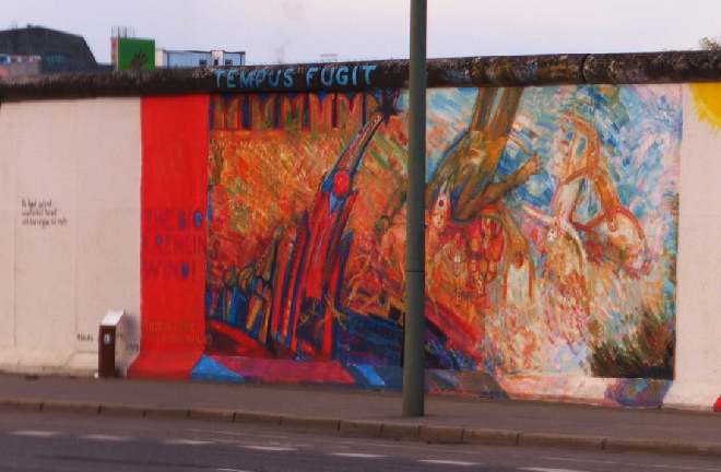 The Big Kremlin's Wind, Theodor Tezhik